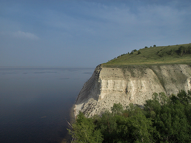 Stepan Razin Cliff.